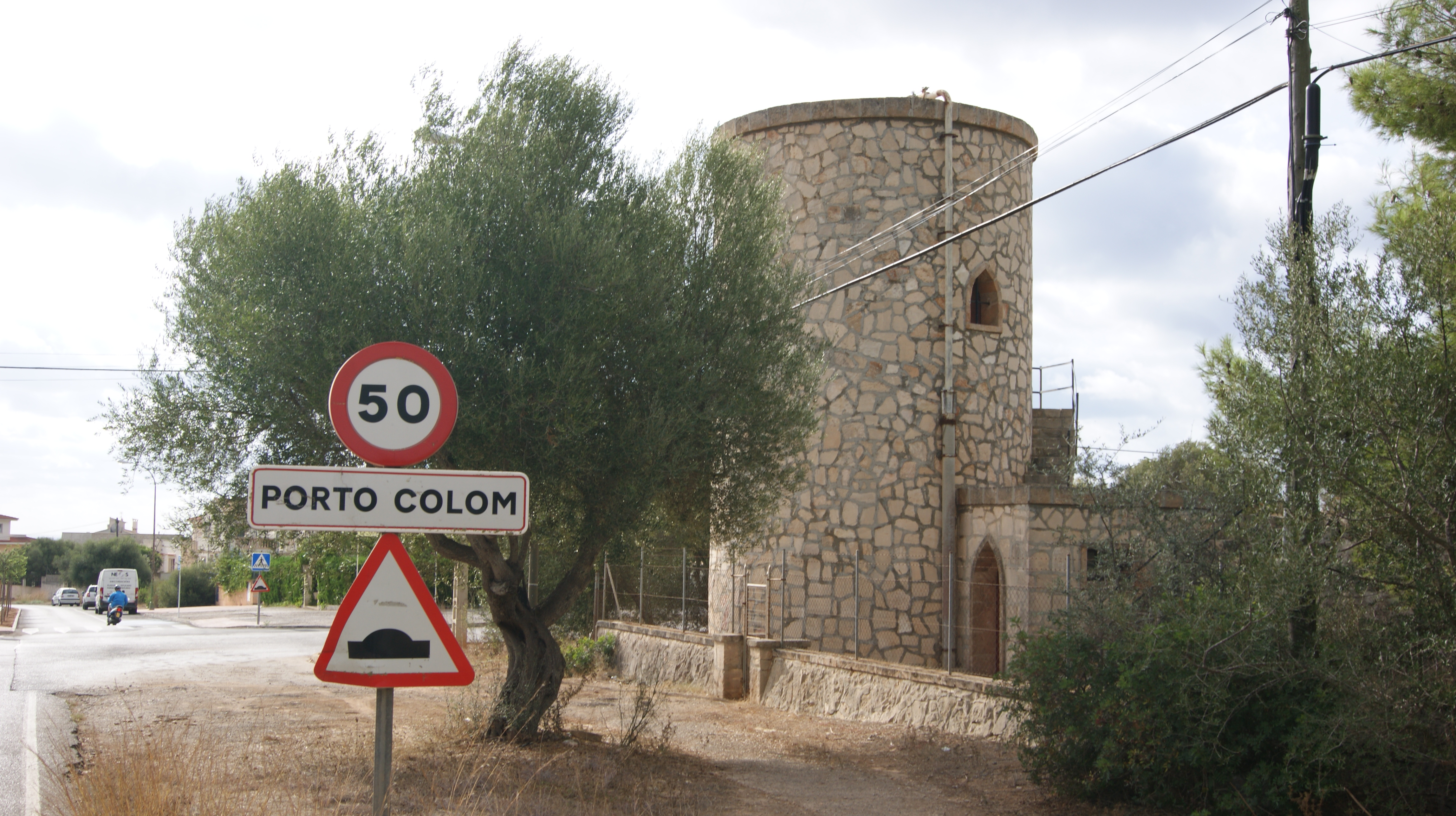 Town sign and tower at Portocolom in Mallorca.